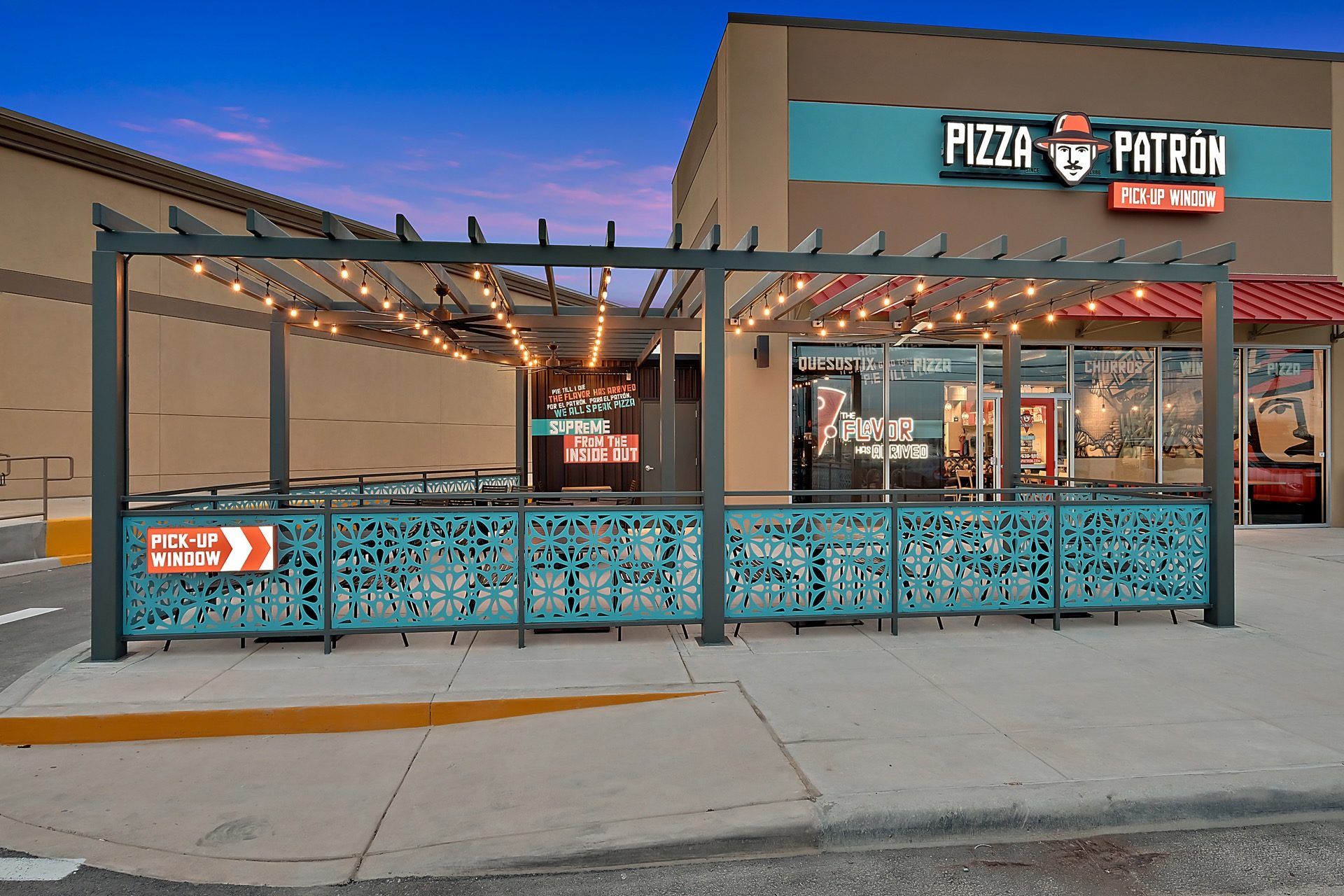 In 2018, Pizza Patrón went through a brand relaunch. Part of this brand relaunch included a redesign of restaurants. The Woodlawn location in San Antonio, TX partook in one of the biggest brand redesigns as it worked with Chute Gerdeman to showcase a more modern and different take on the Pizza Patrón brand.